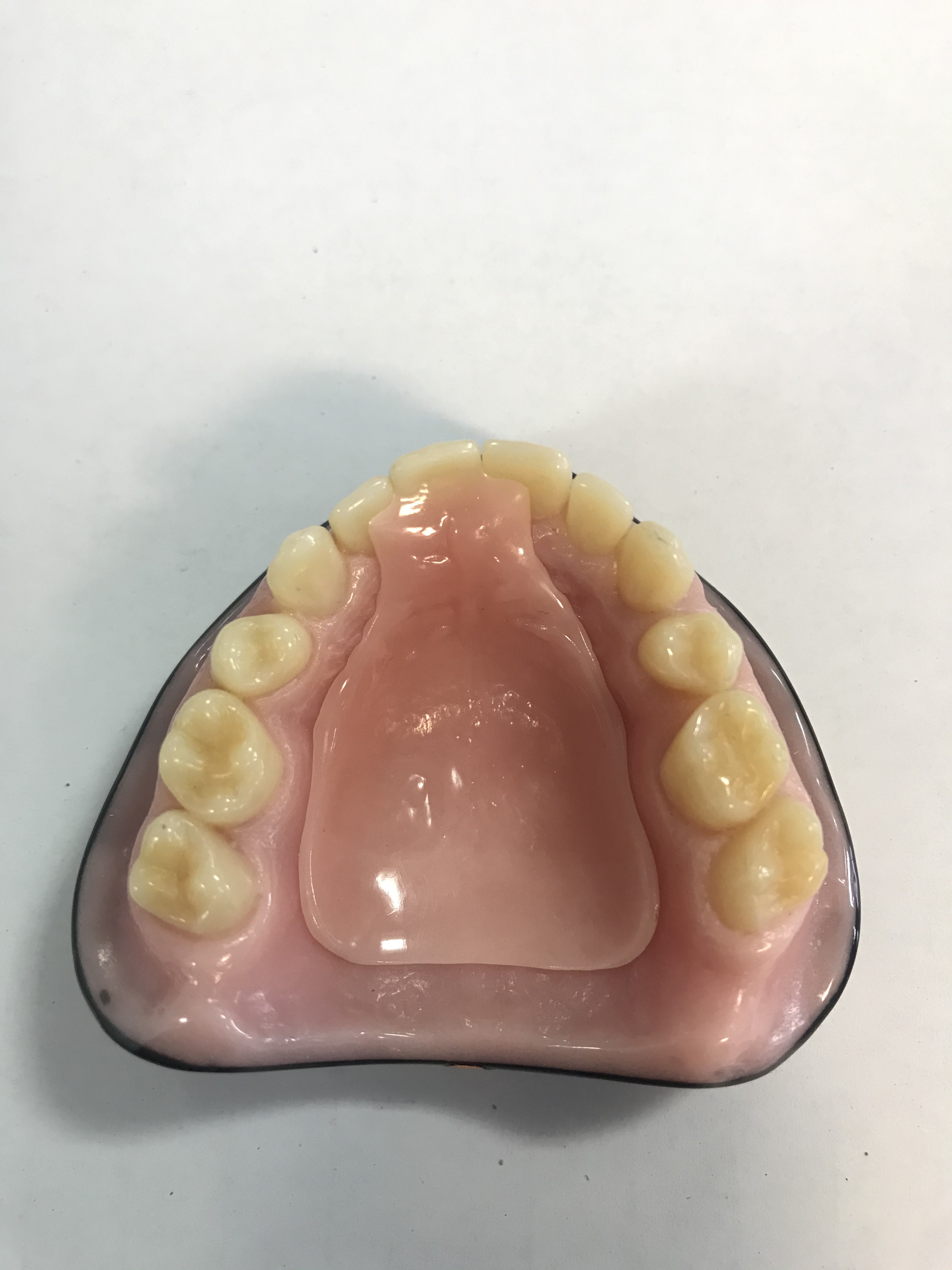 The image shows a spoon denture